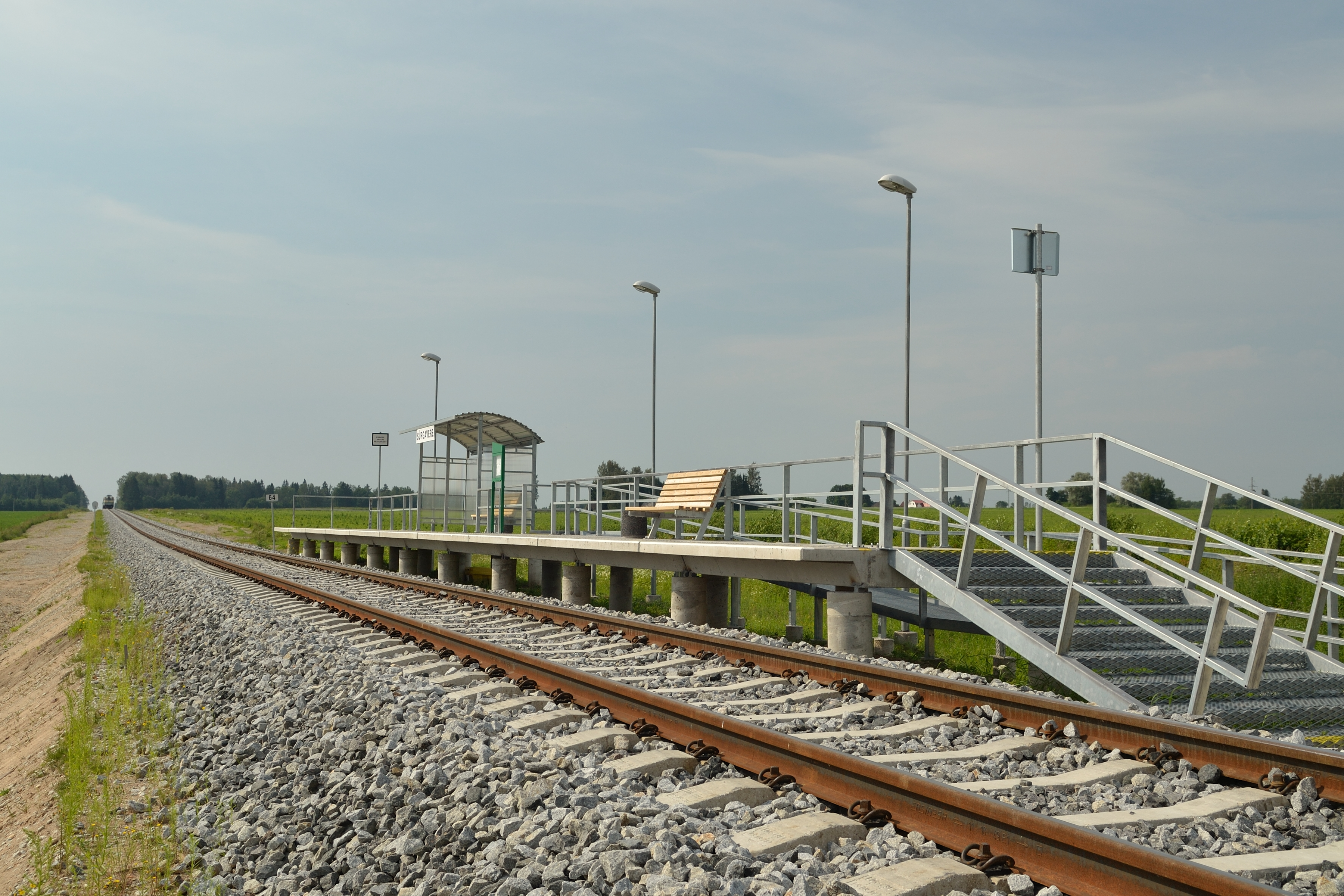 Sürgavere train stop